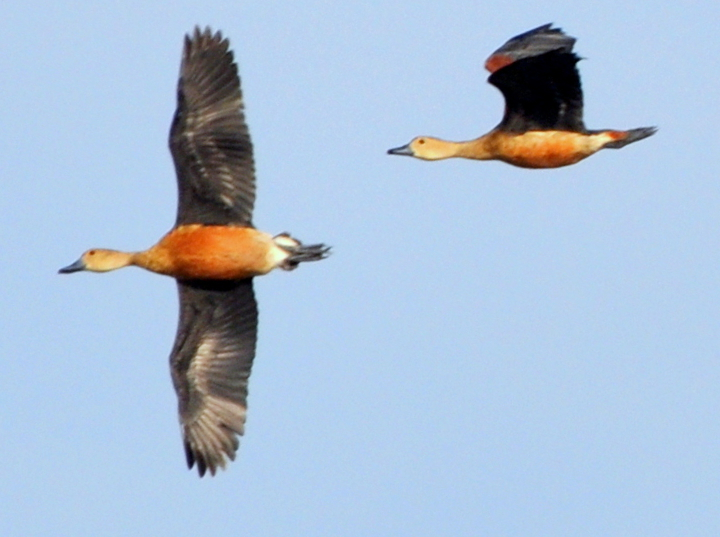 Indian Whistling Duck formerly known as Lesser Whistling Teal